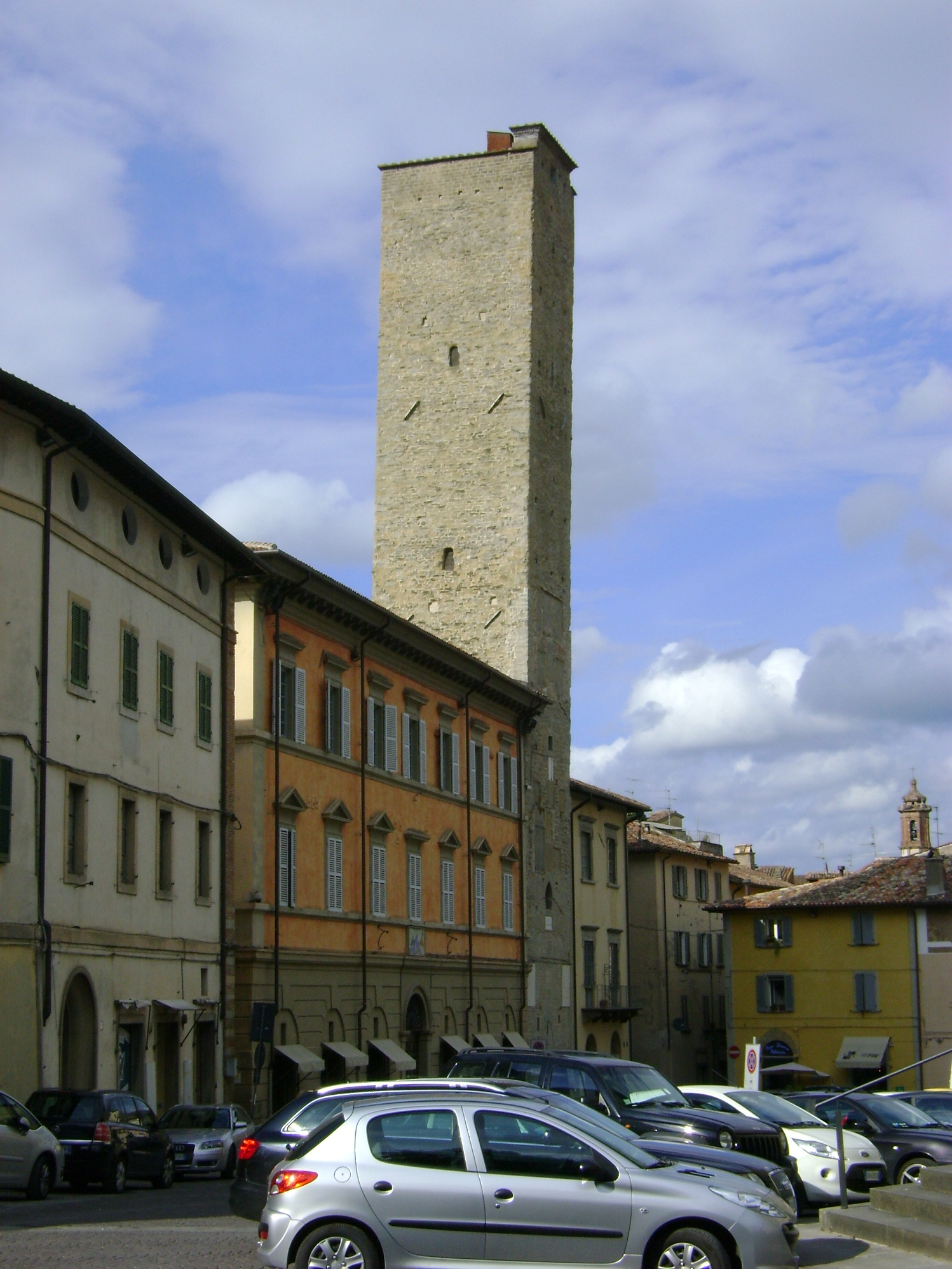 The civic tower of Città di Castello, in the province of Perugia, Umbria